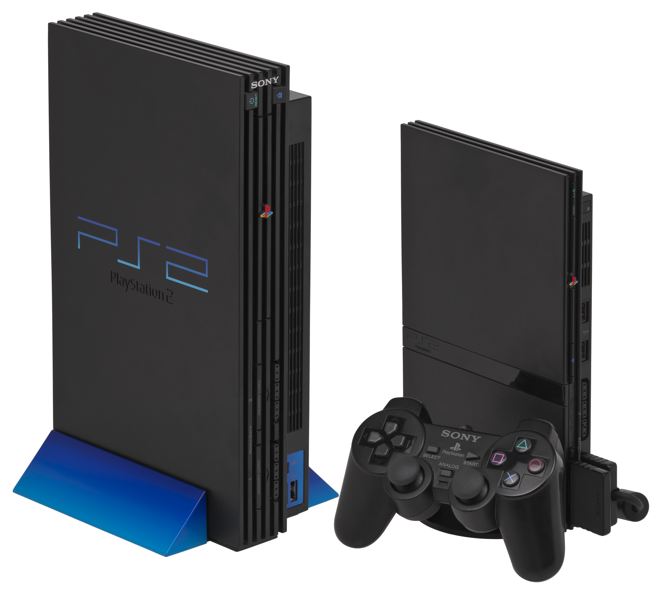 Two iterations of the PlayStation 2 console, the fat and the slimline. On the left is a model SCPH-30001 with a vertical stand. On the right is a slimline model SCPH-70001 with a vertical stand, a DualShock2 and 8MB memory card plugged in. This is the PNG version.